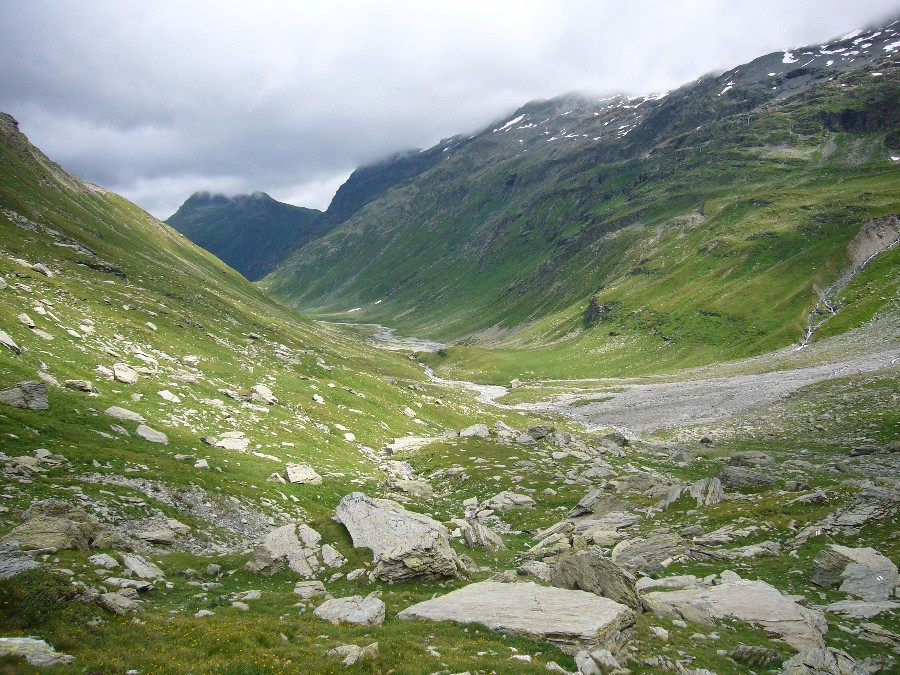 Val Curciusa from south; the upper Part of the valley is called Curciusa Alta (upper Curciusa)